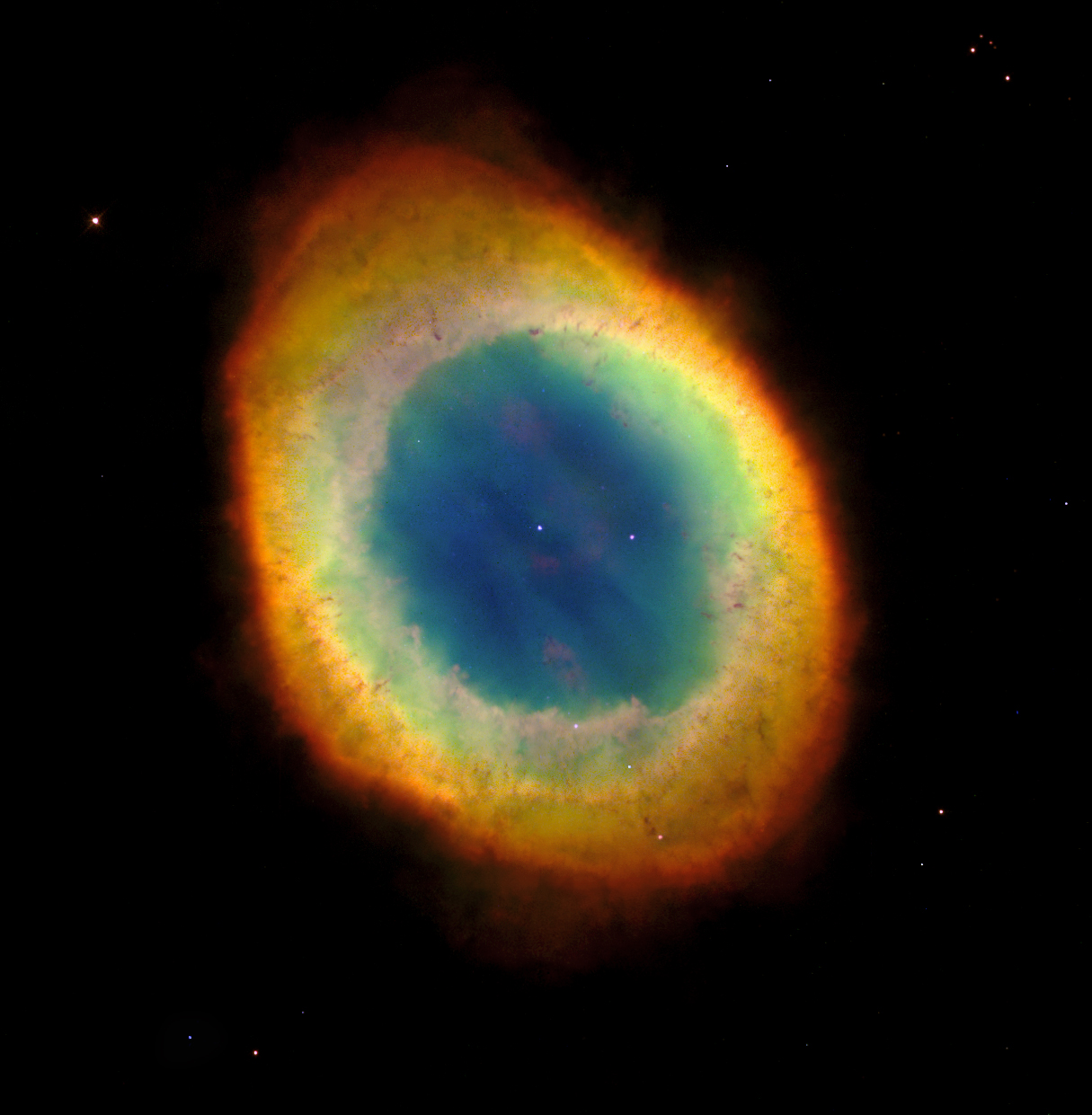 NASA's Hubble Space Telescope has captured the sharpest view yet of the most famous of all planetary nebulae: the Ring Nebula (M57). In this October 1998 image, the telescope has looked down a barrel of gas cast off by a dying star thousands of years ago. This photo reveals elongated dark clumps of material embedded in the gas at the edge of the nebula; the dying central star floating in a blue haze of hot gas. The nebula is about a light-year in diameter and is located some 2000 light-years from Earth in the direction of the constellation Lyra. The colors are approximately true colors. The color image was assembled from three black-and-white photos taken through different color filters with the Hubble telescope's Wide Field Planetary Camera 2. Blue isolates emission from very hot helium, which is located primarily close to the hot central star. Green represents ionized oxygen, which is located farther from the star. Red shows ionized nitrogen, which is radiated from the coolest gas, located farthest from the star. The gradations of color illustrate how the gas glows because it is bathed in ultraviolet radiation from the remnant central star, whose surface temperature is a white-hot 120,000 degrees Celsius (216,000 degrees Fahrenheit).